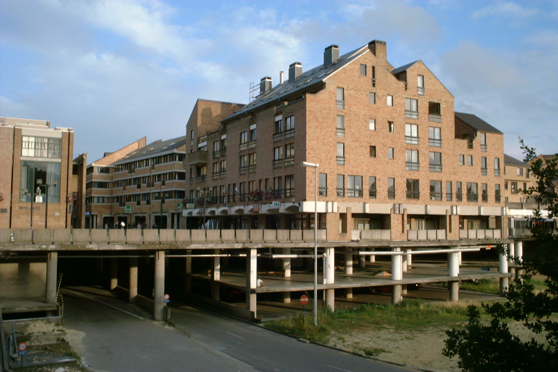 Own photo, Louvain-la-Neuve with a cut-away like view of the underground parking.